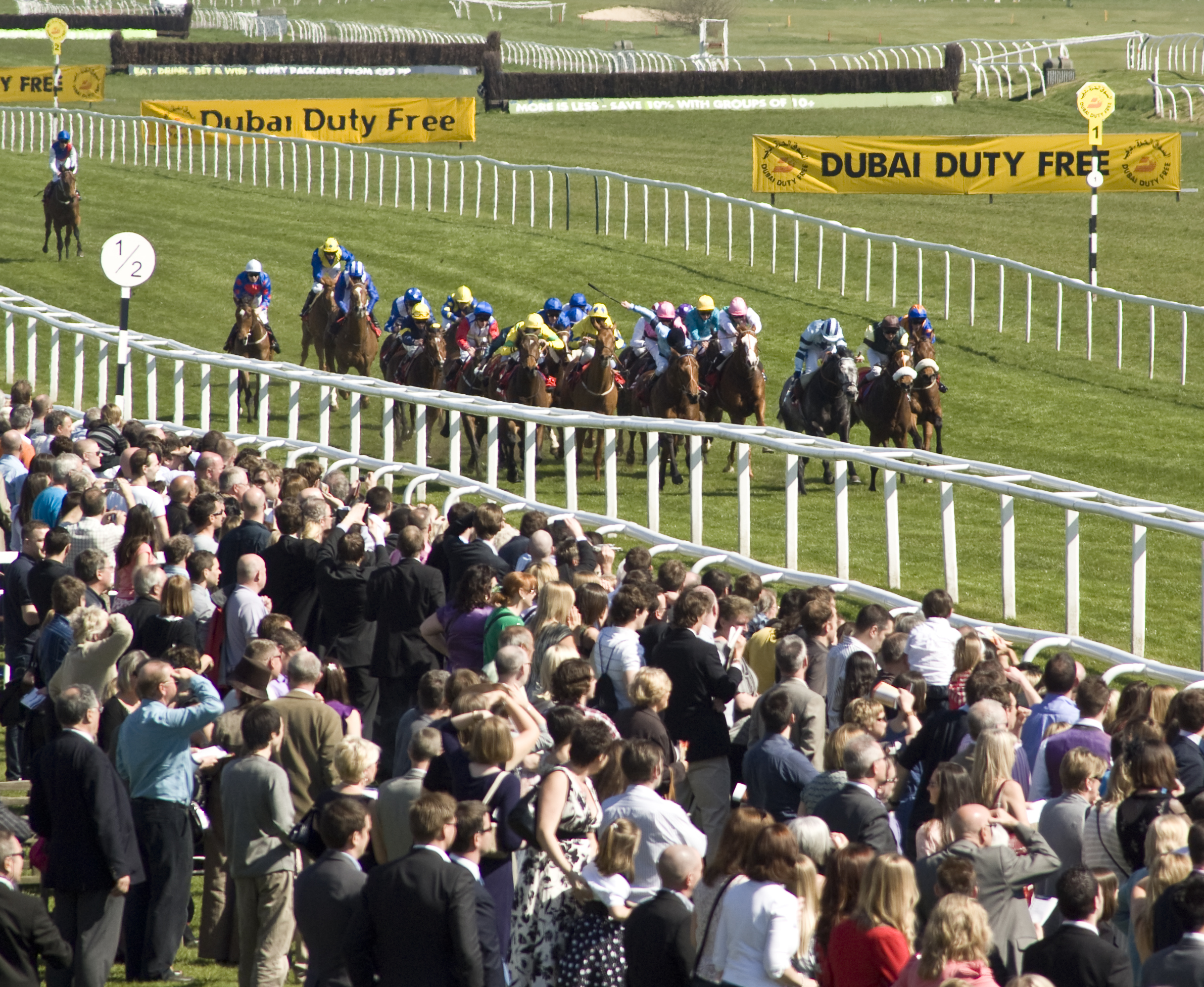 Newbury Race Course, Racing 17th April 2010